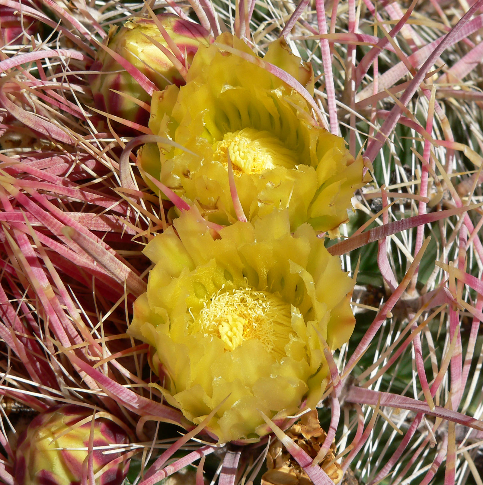 Ferocactus cylindraceus in Gateway Canyon, Calico Basin, southern Nevada